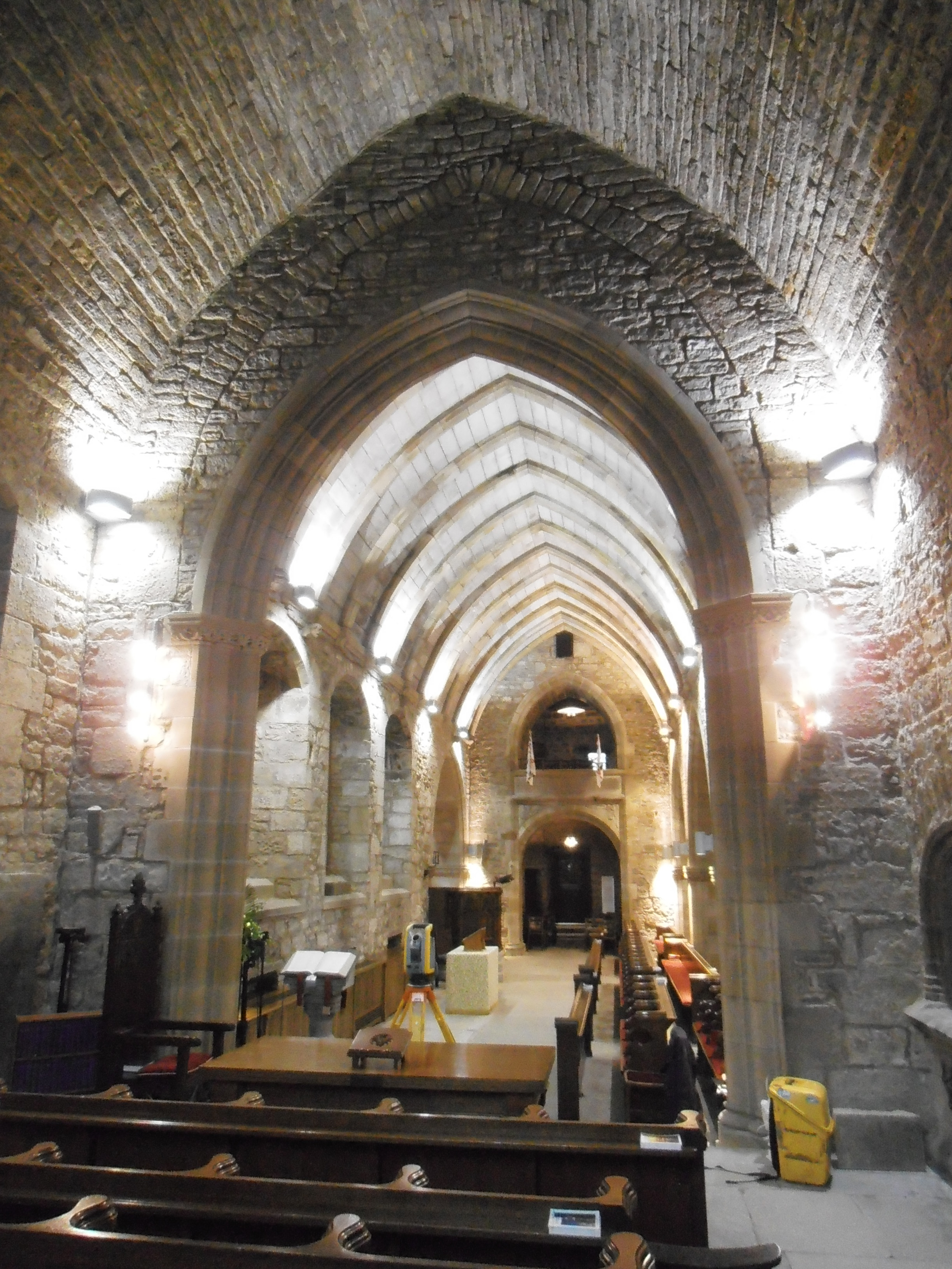 The current nave of the church showing the concrete vaults replacing the original stone barrel vaults in 1905